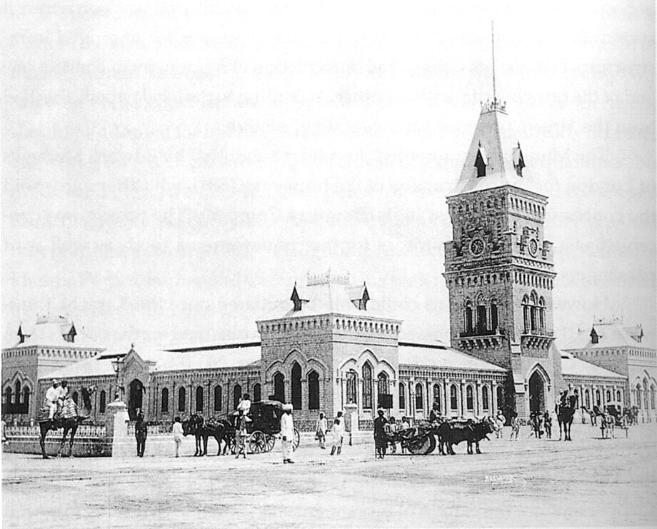 The Empress Market, Karachi, Sind, Pakistan